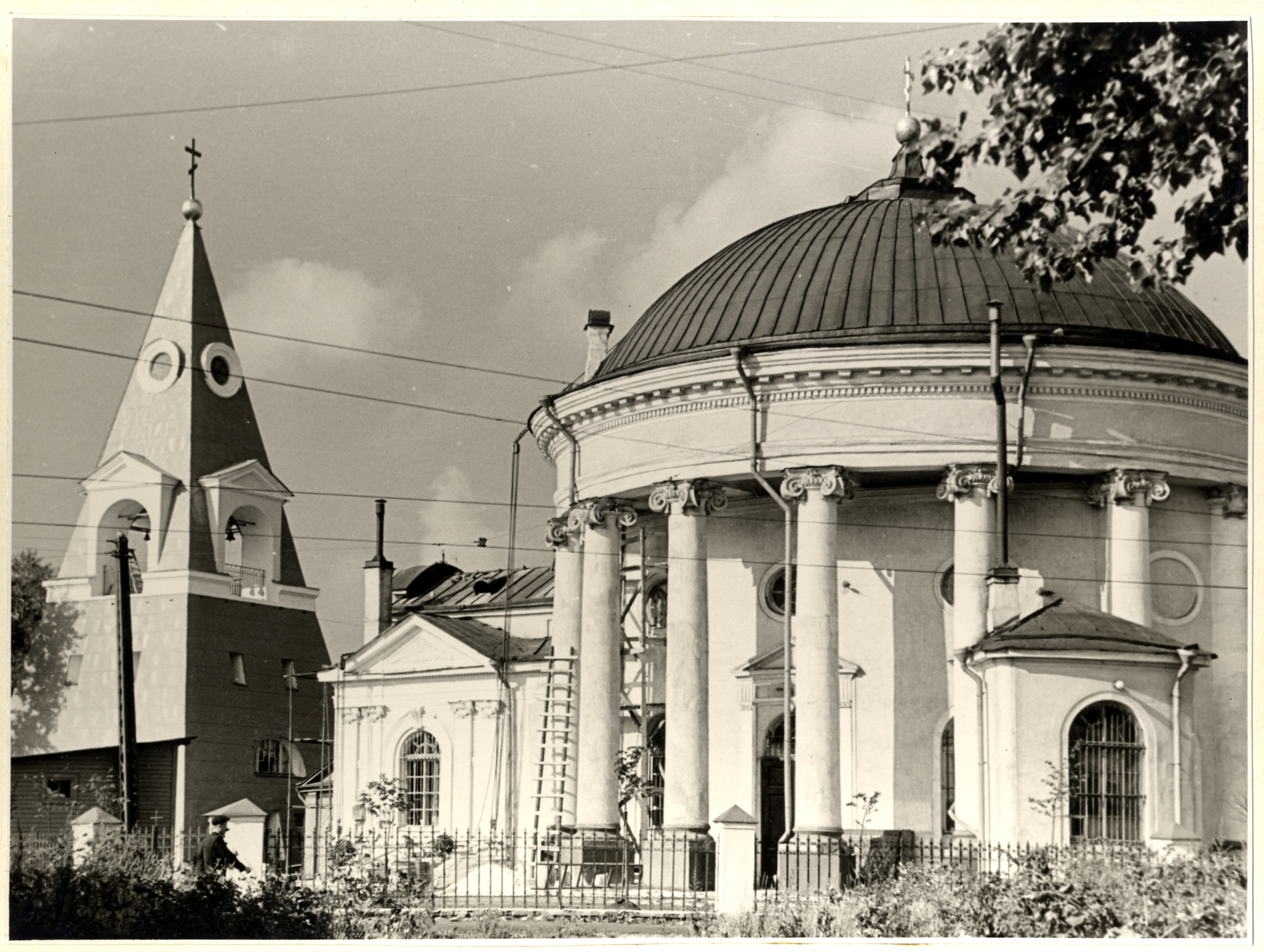 Saint Petersburg (Russia), Troitskaya church